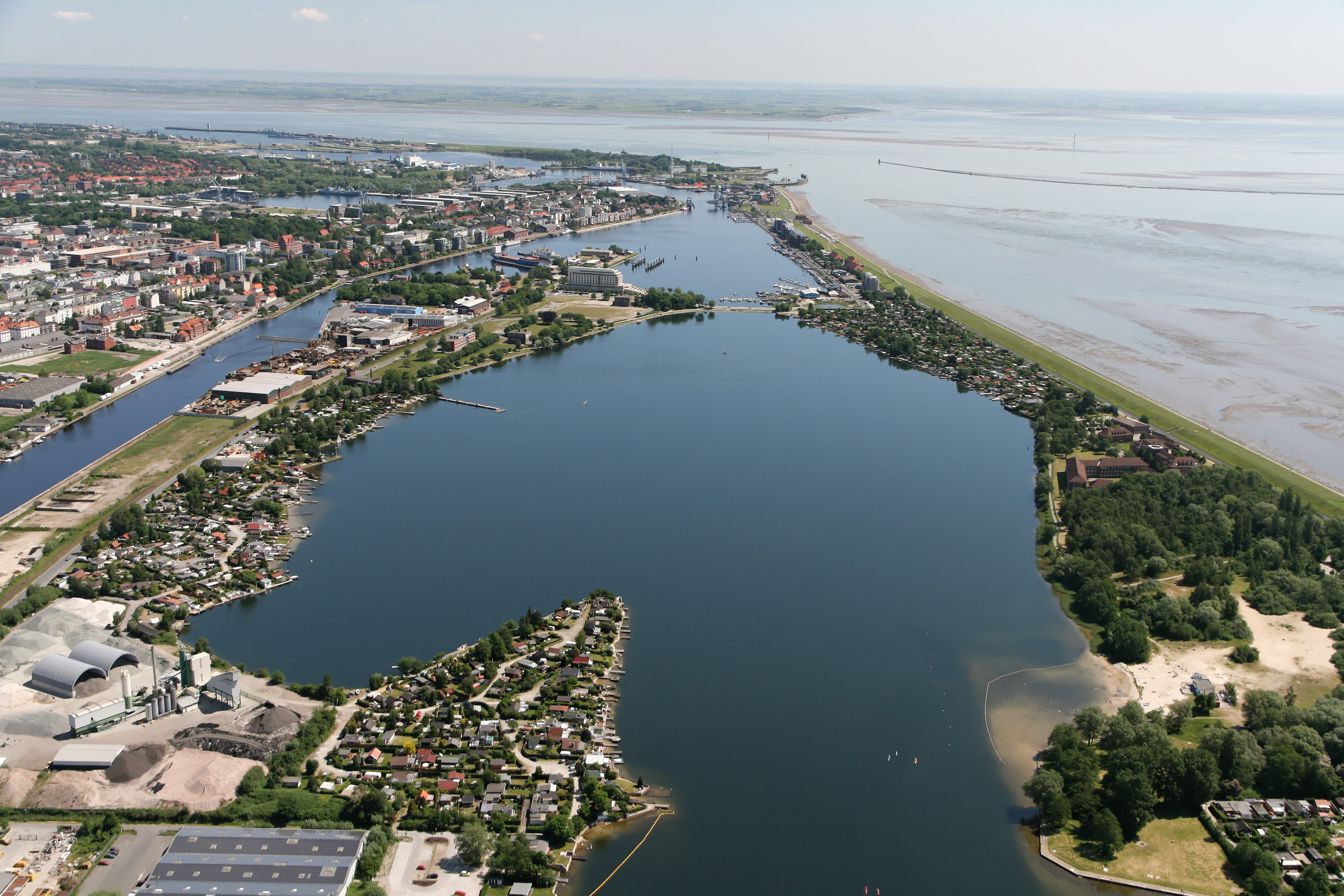 A aerial photograph of a unidentified location.